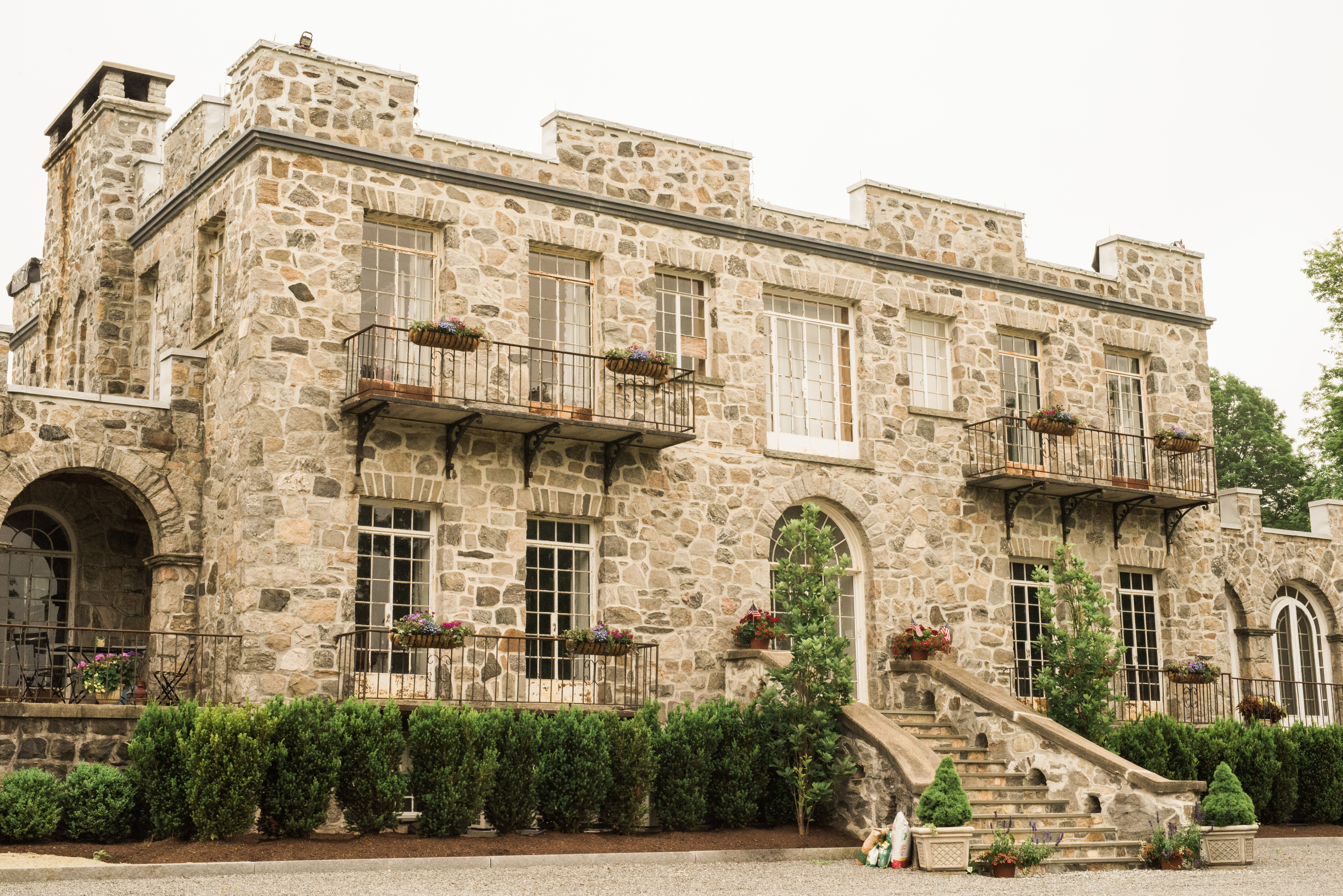 Humphrey Bogart's old haunt in Monroe, CT.